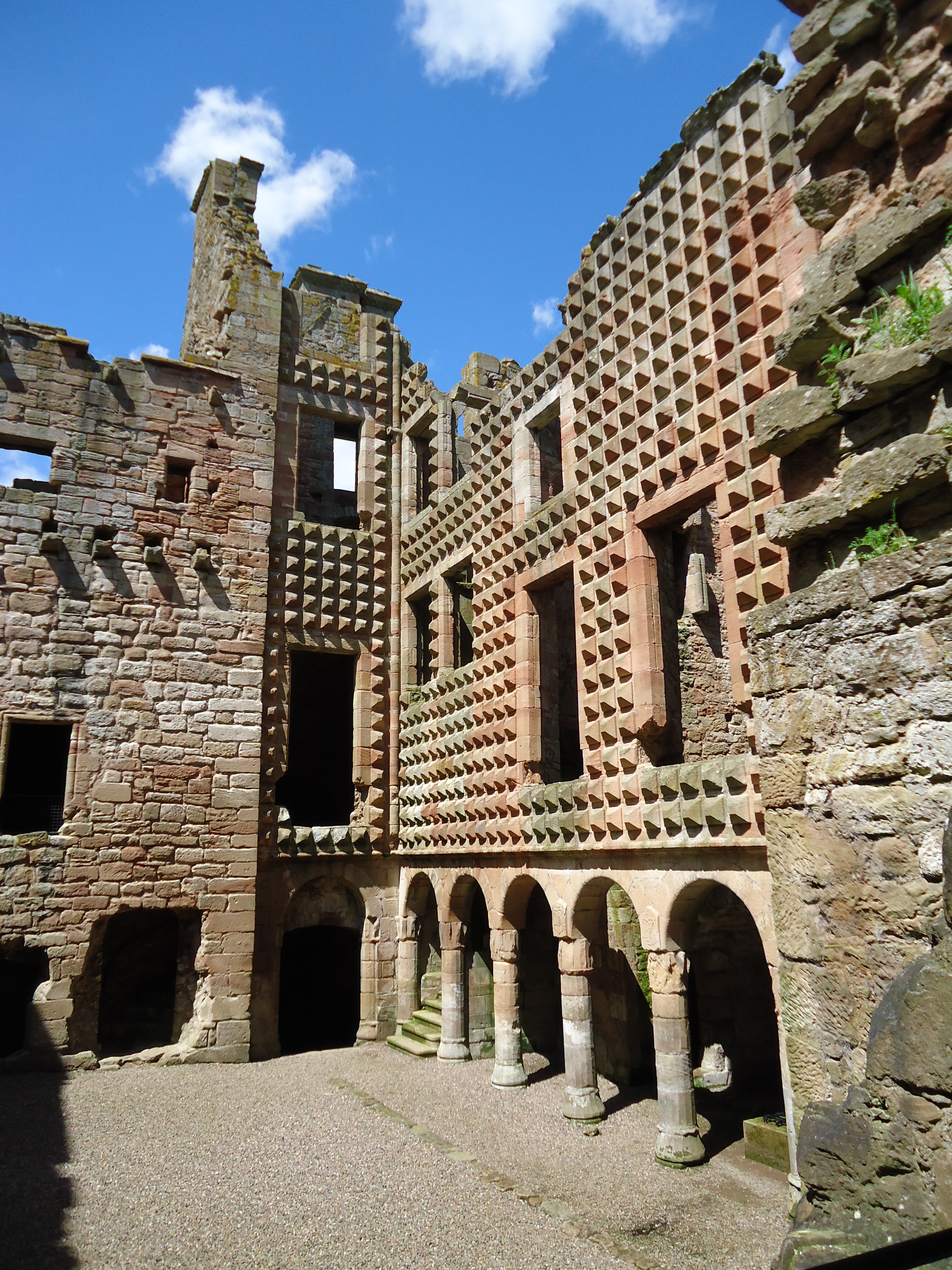 Courtyard of Crichton Castle, Midlothian.